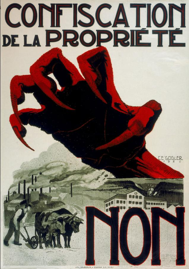 Advertisement for swiss votation of 1922 regarding the introduction of a unique direct tax